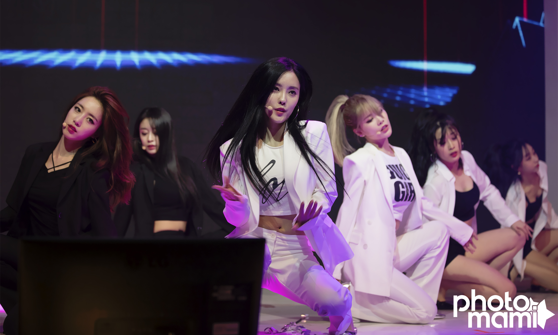 170614 'What's My Name' Showcase